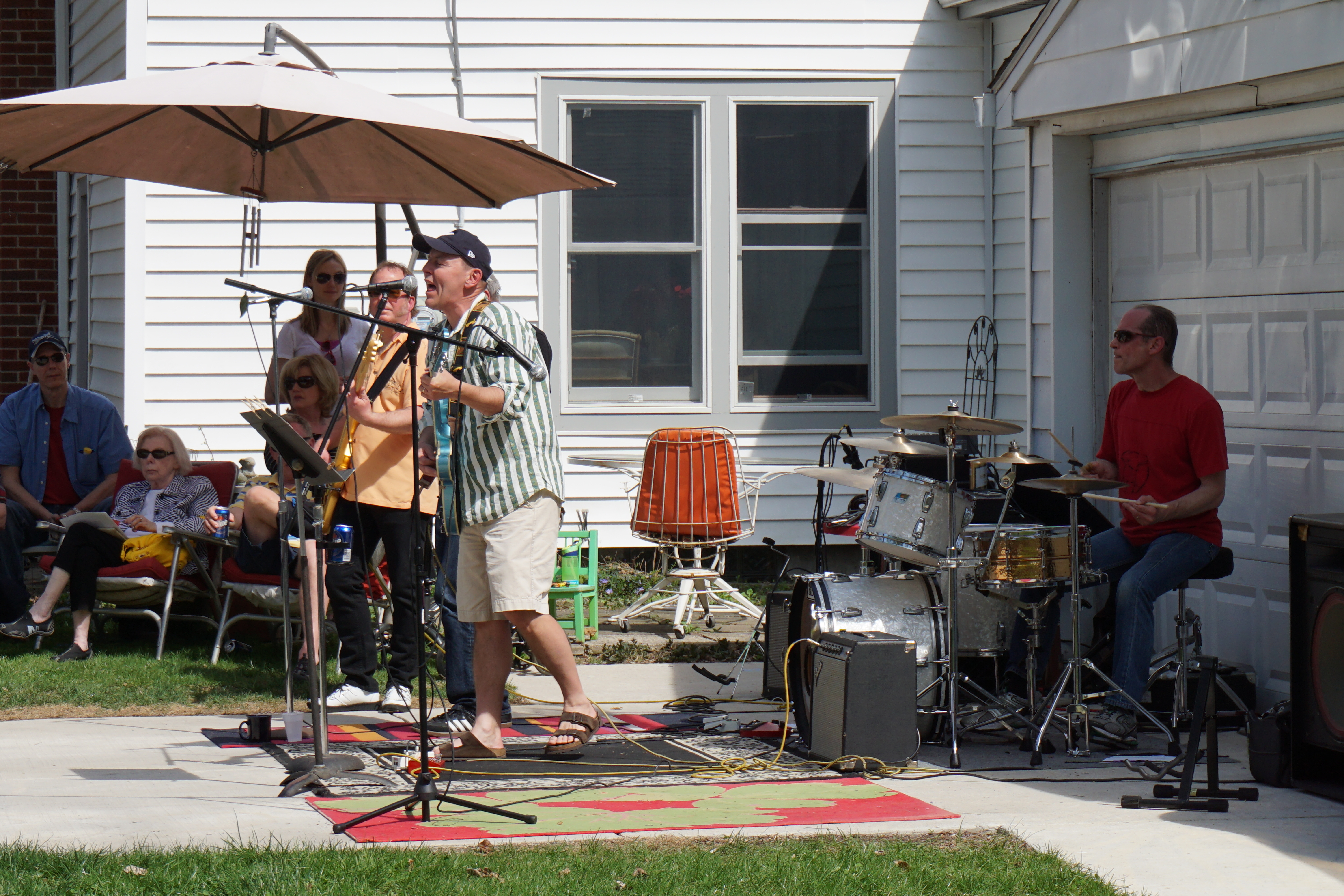 Corndaddy performing at the 2015 Water Hill Music Fest in Ann Arbor, Michigan (United States).